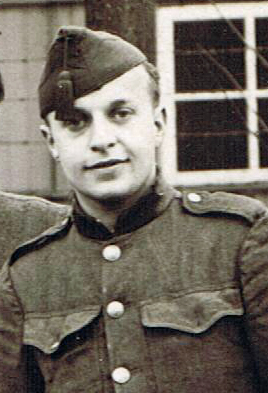 Dr. Joseph Colmant (1903-1944), member of the belgian resistance movement during WW2